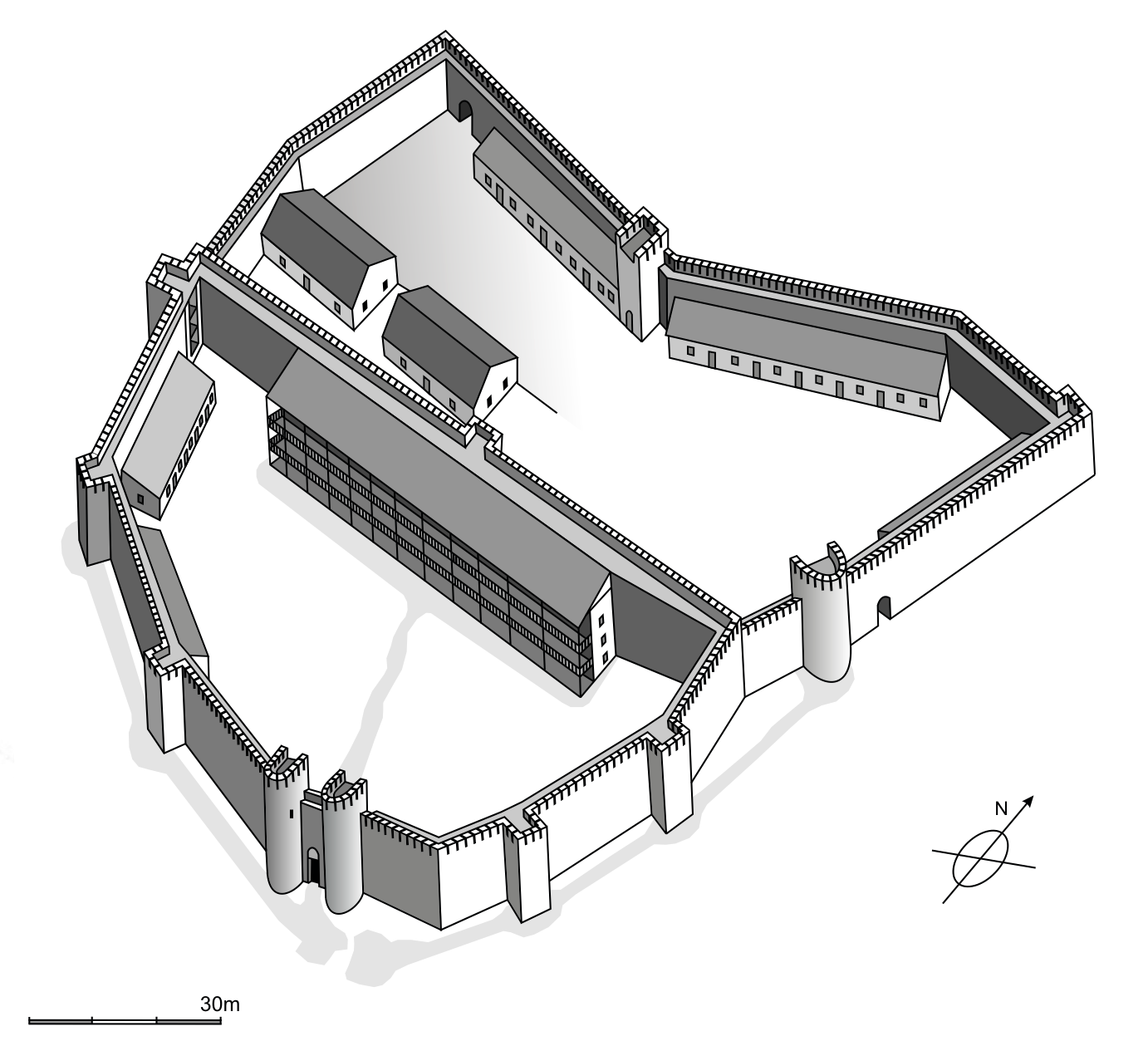 Castle of the Bulgarian Tsar Samuel in Ohrid, reconstruction.